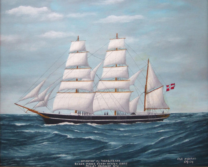 Photo of ship